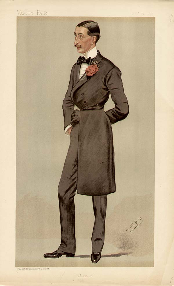 Statesmen No.622: Caricature of Mr RA Yerburgh. Caption reads: "Chester"